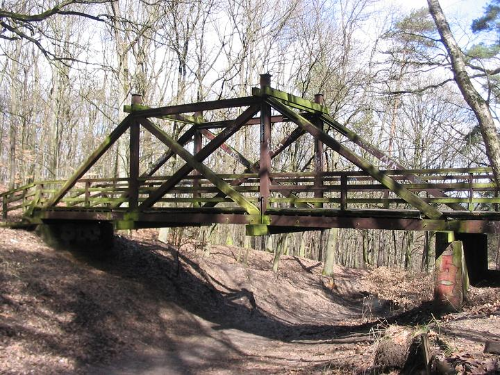 Müggelberge (Müggel hills) in Berlin-Treptow-Köpenick. Timber bridge over the former toboggan run.